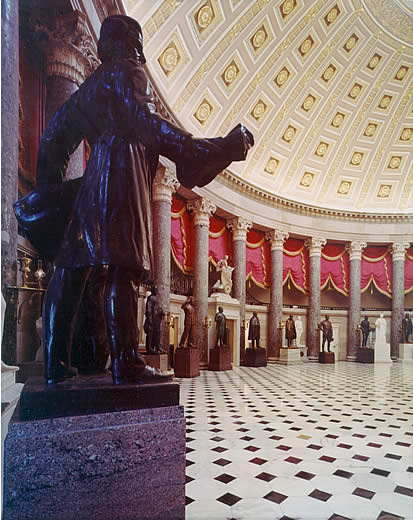 National Statuary Hall (sideview); ; Foreground: Jason Lee (Oregon); background, left to right: Joseph Wheeler (Alabama), Huey Long (Louisiana), William Henry Harrison Beadle (South Dakota), William Jennings Bryan (Nebraska), Hannibal Hamlin (Maine), Daniel Webster (New Hampshire), John Campbell Greenway (Arizona), Charles Marion Russell (Montana), Frances E. Willard (Illinois), unidentified; above doorway: Car of History clock